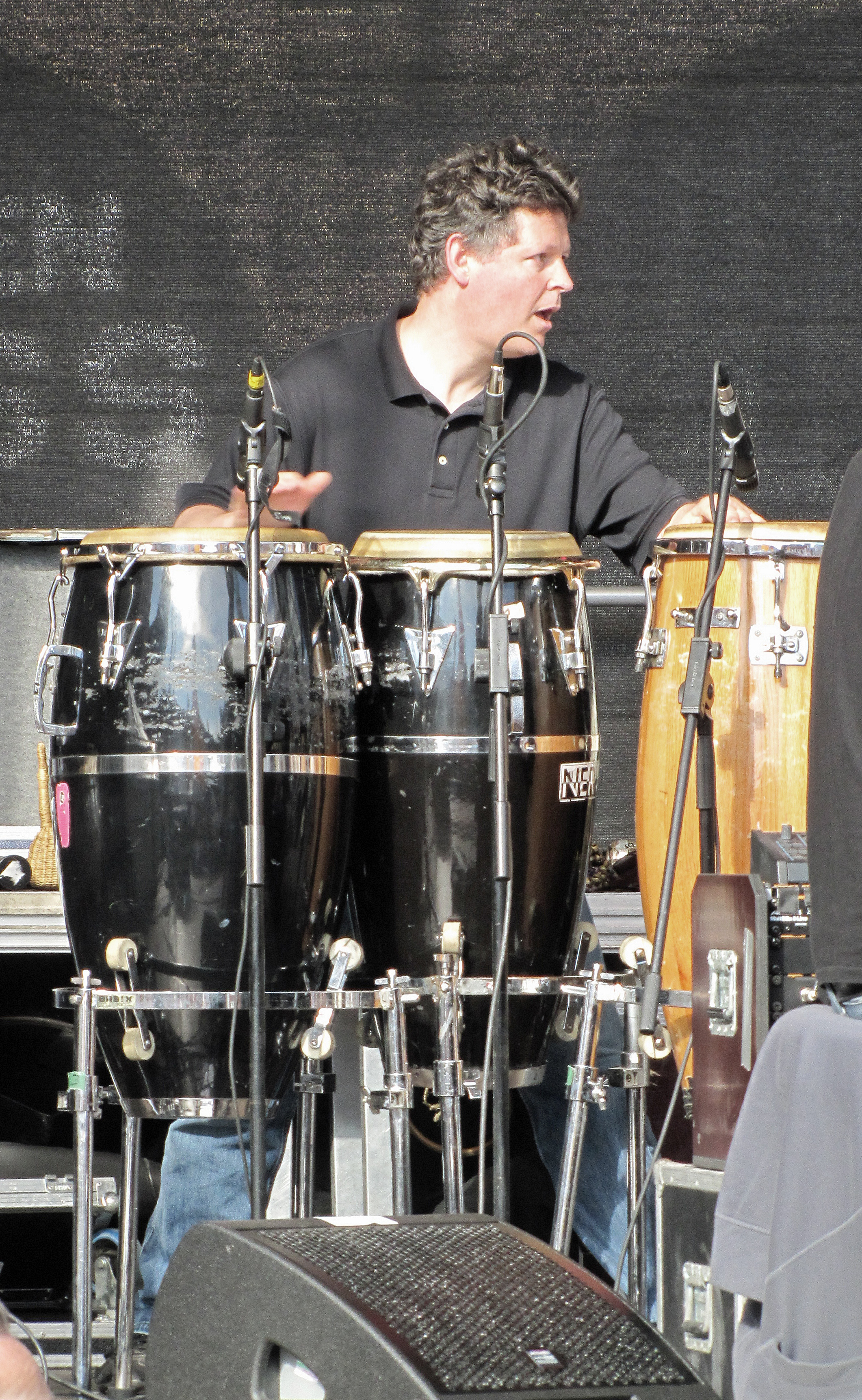 Ernst Ströer, German drummer and percussionist, with Doldingers "Passport", at "Jazz zum Dritten", 2010 in Frankfurt am Main, Germany.